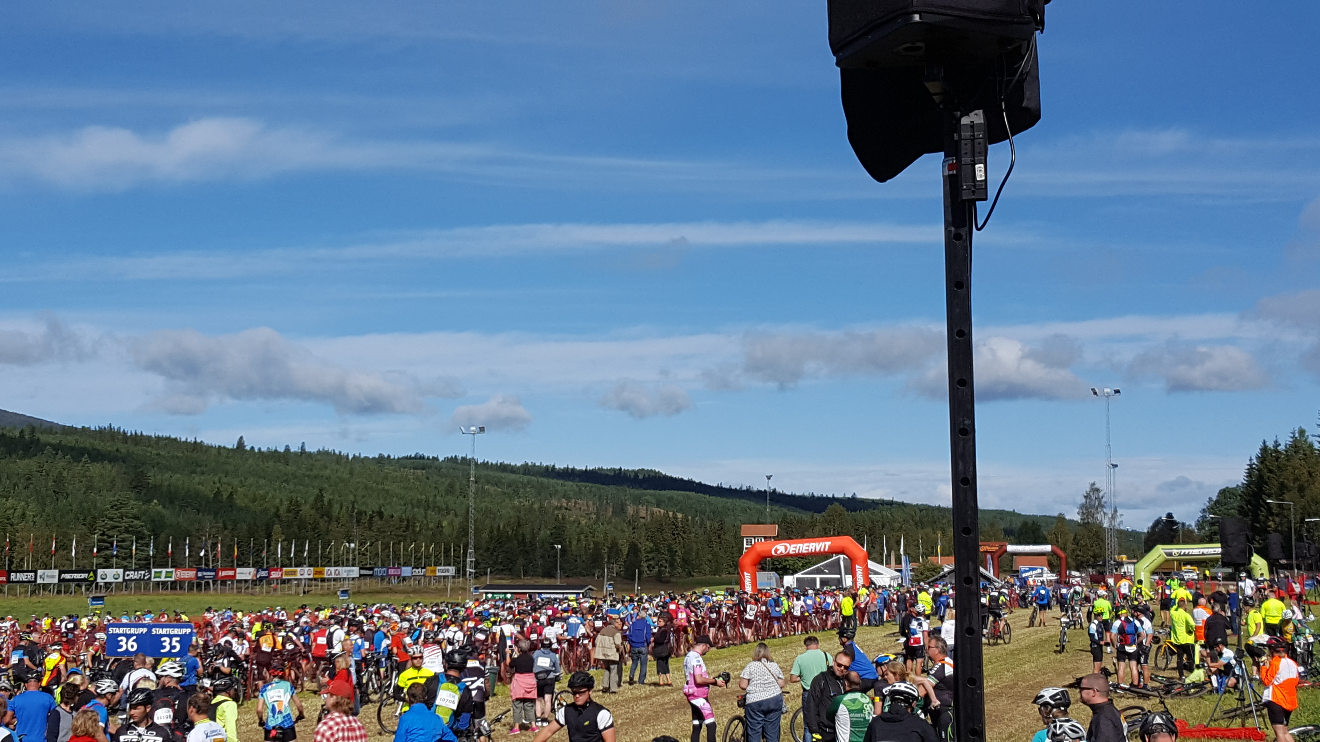 Cykelvasan start 2016